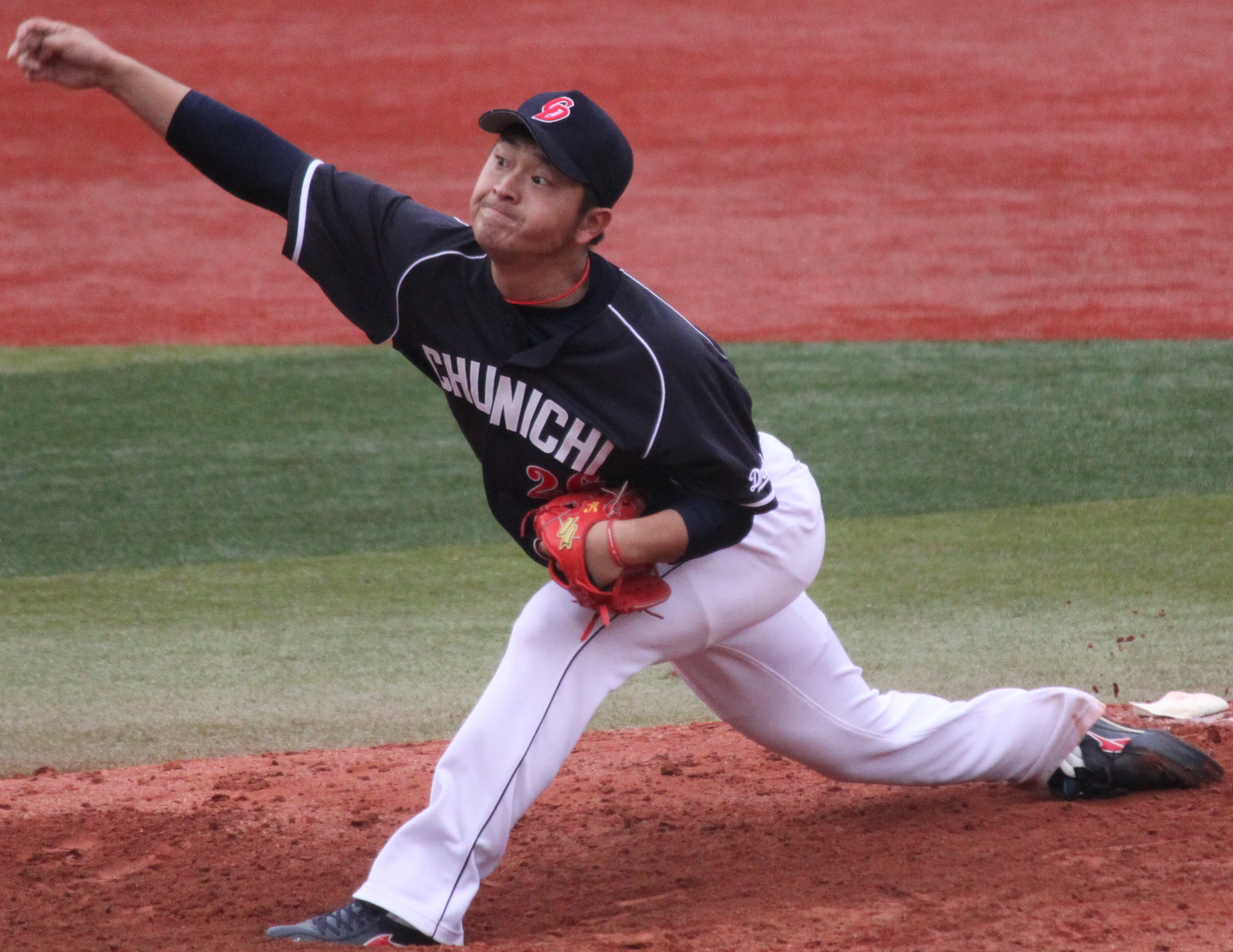 Soma Yamauchi, pitcher of the Chunichi Dragons, at Yokohama Stadium.